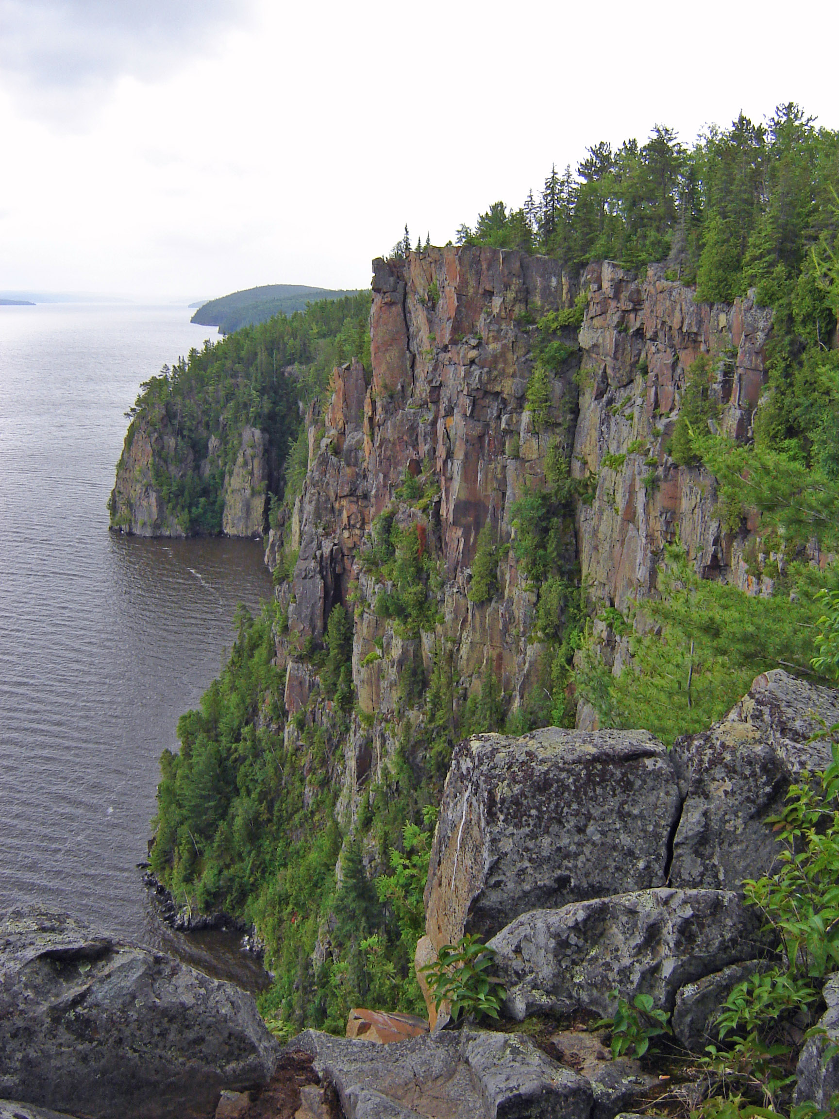 Devil's Rock on western shores of Lake Timiskaming near Bucke Park in Lorrain Township, District of Timiskaming, Ontario